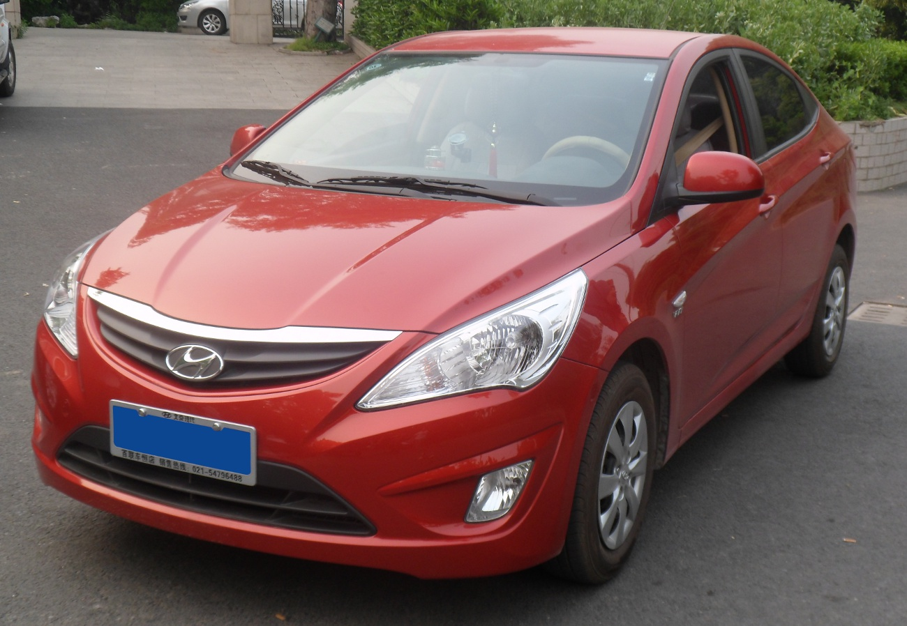 Hyundai Verna RC sedan photographed in Shanghai, China.